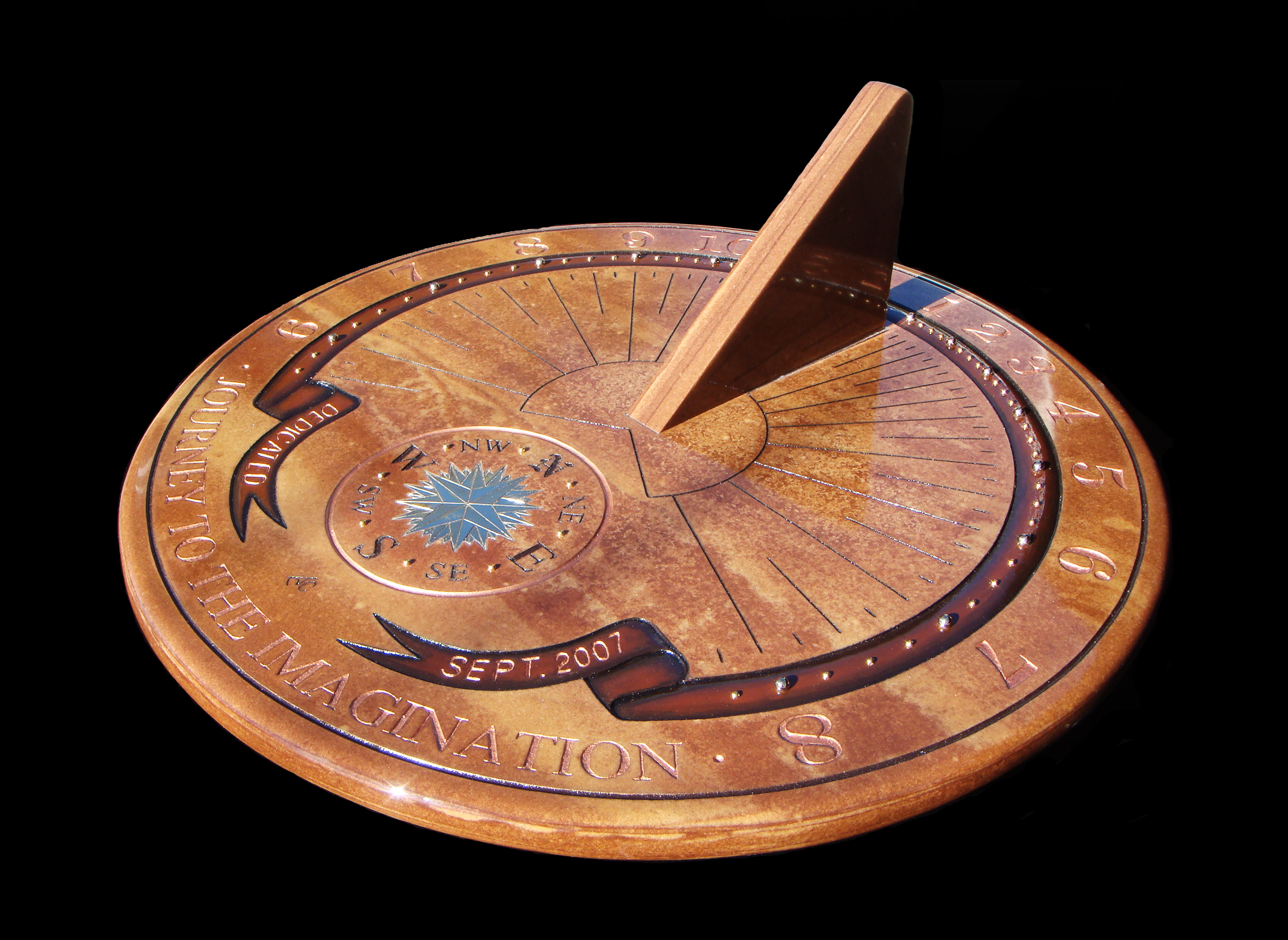 This is a hand-carved stone sundial by John Carmichael at Sundial Sculptures